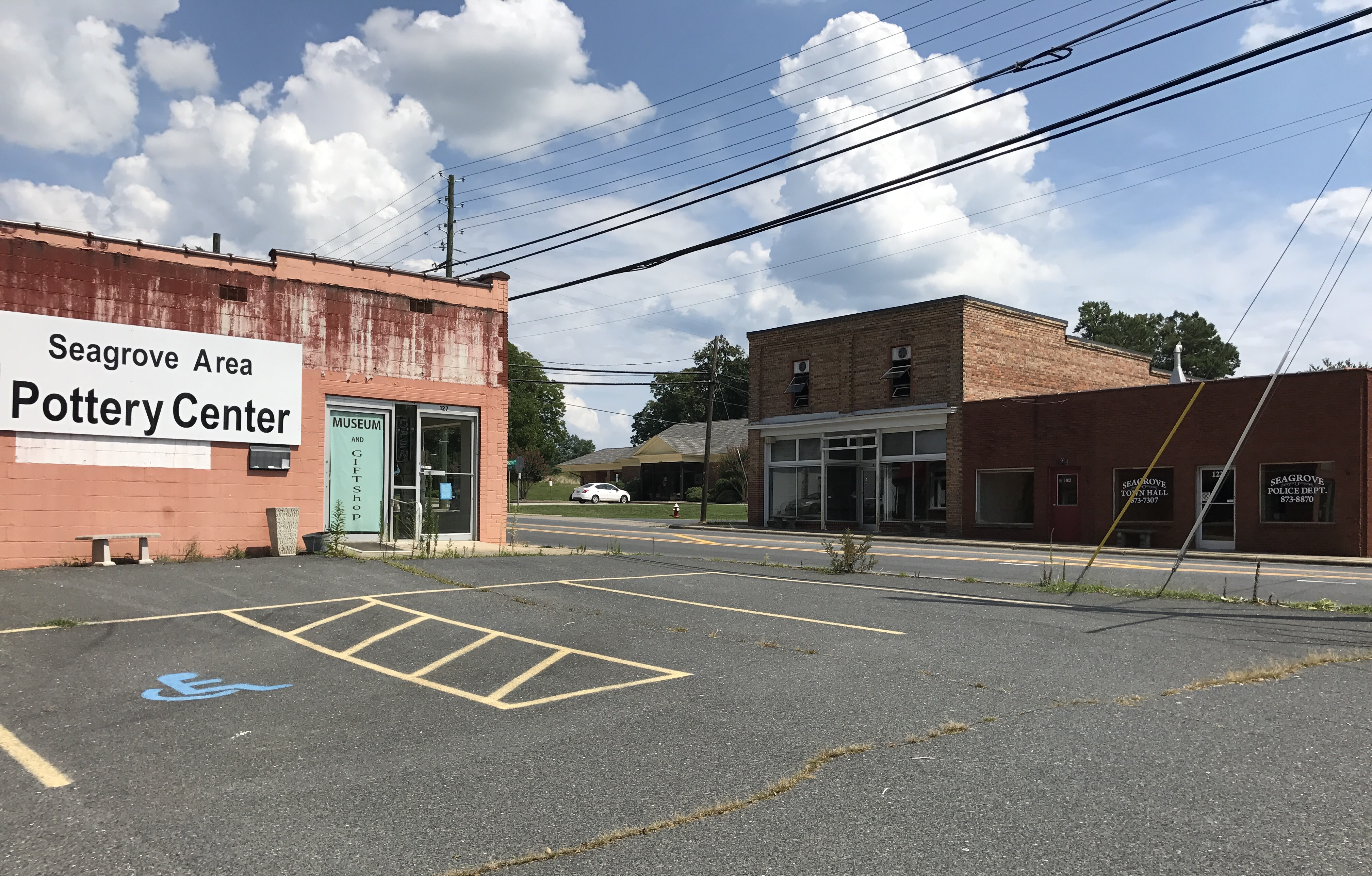 Downtown Seagrove. Town hall and police station are on the far right